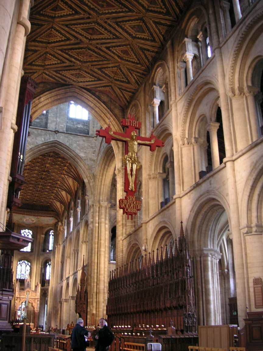 Peterborough Cathedral, looking towards the Norman choir, with the Rood, late 20th century.